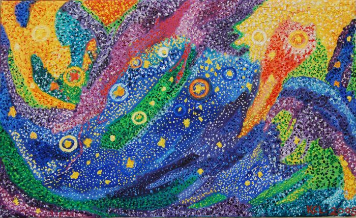 Picture of painting "flowers in the universe"